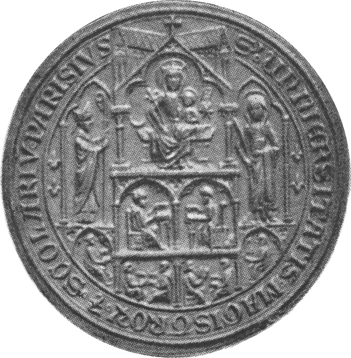 Seal of University of Paris from 1292.